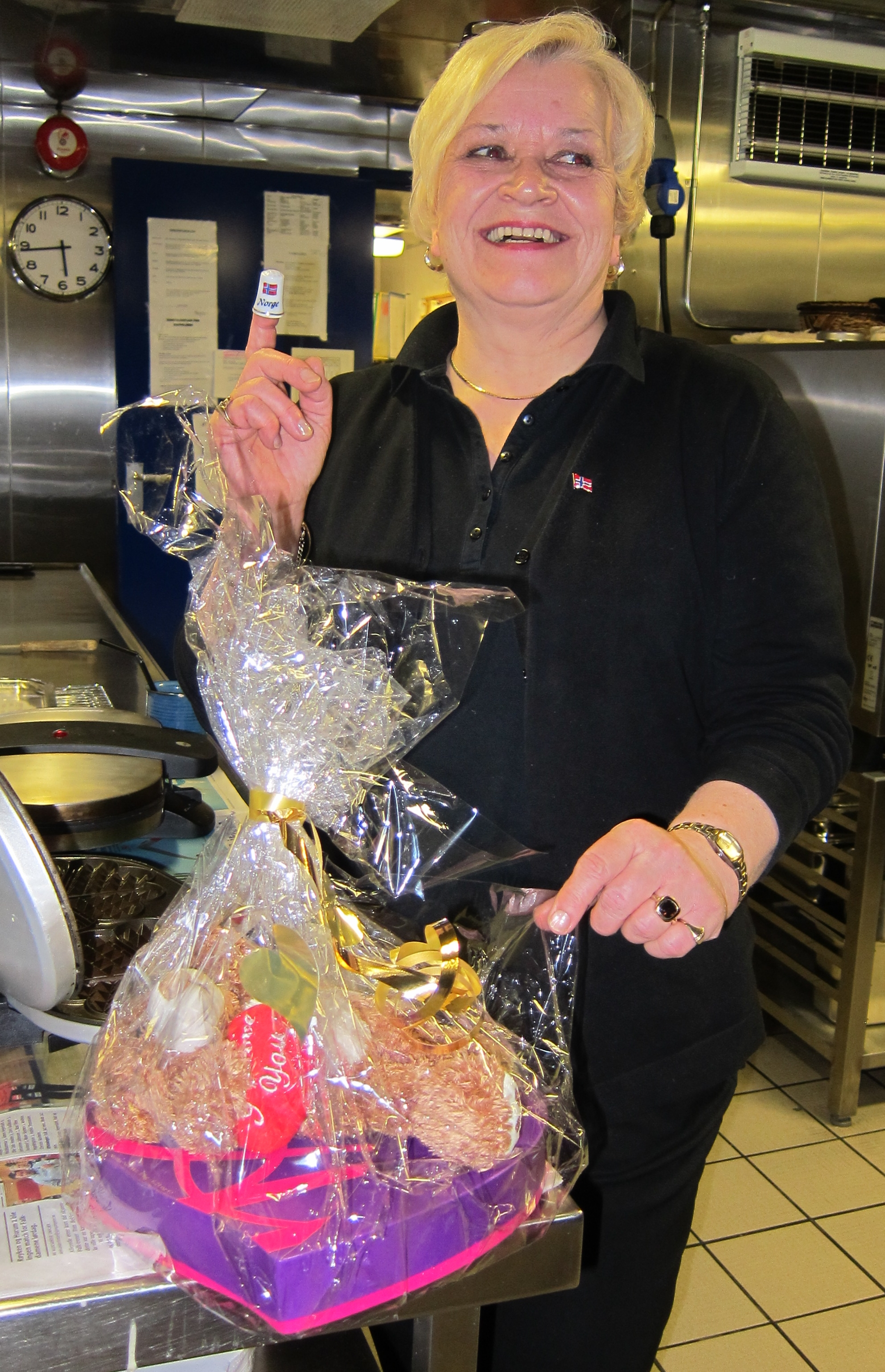 Mothers day at workplace, a woman on board a Norwegian ferry has received gifts for Mother's day